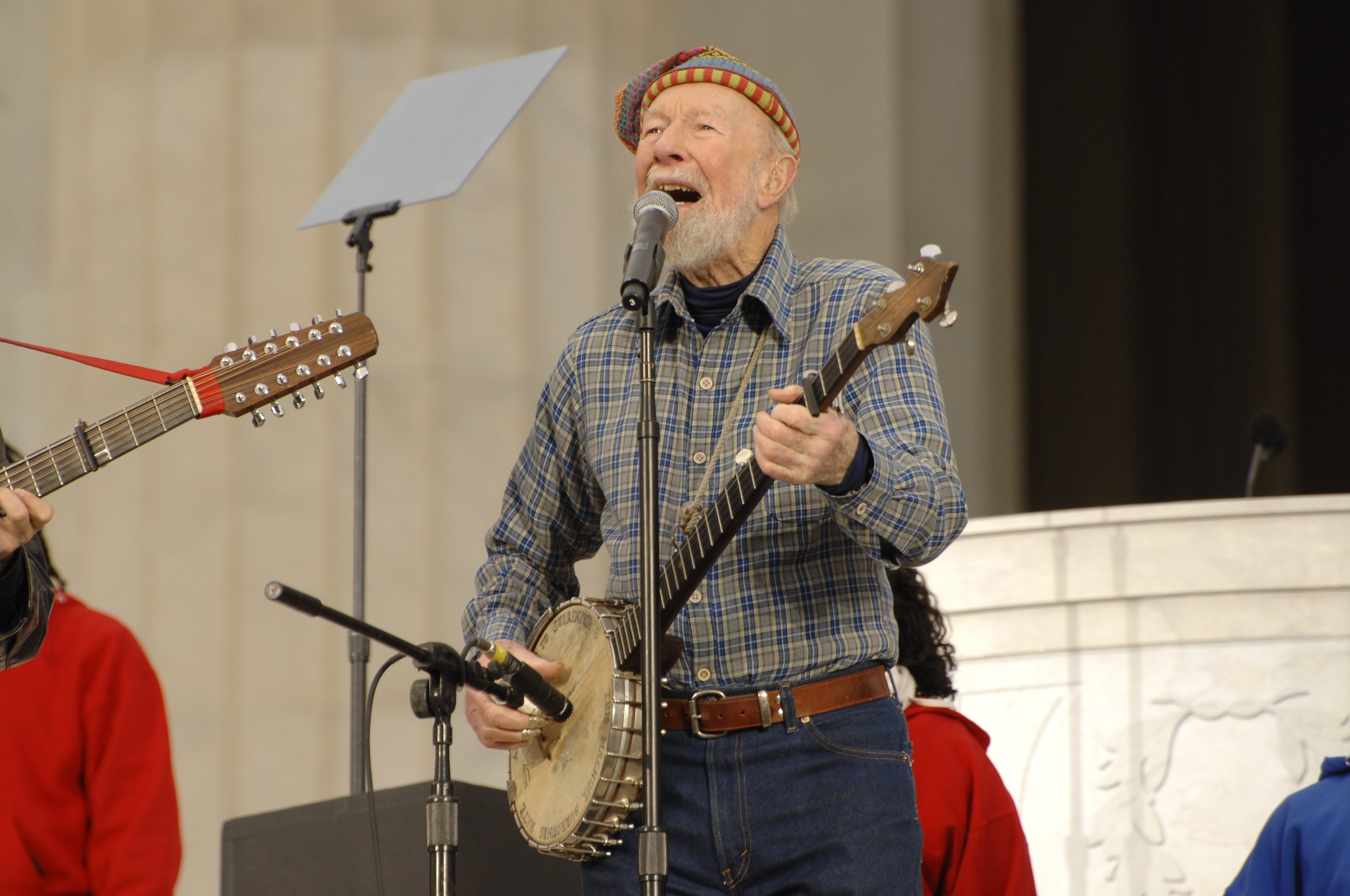 Pete Seeger at the Lincoln Memorial on the National Mall in Washington, D.C., Jan. 18, 2009, during the inaugural opening ceremonies.